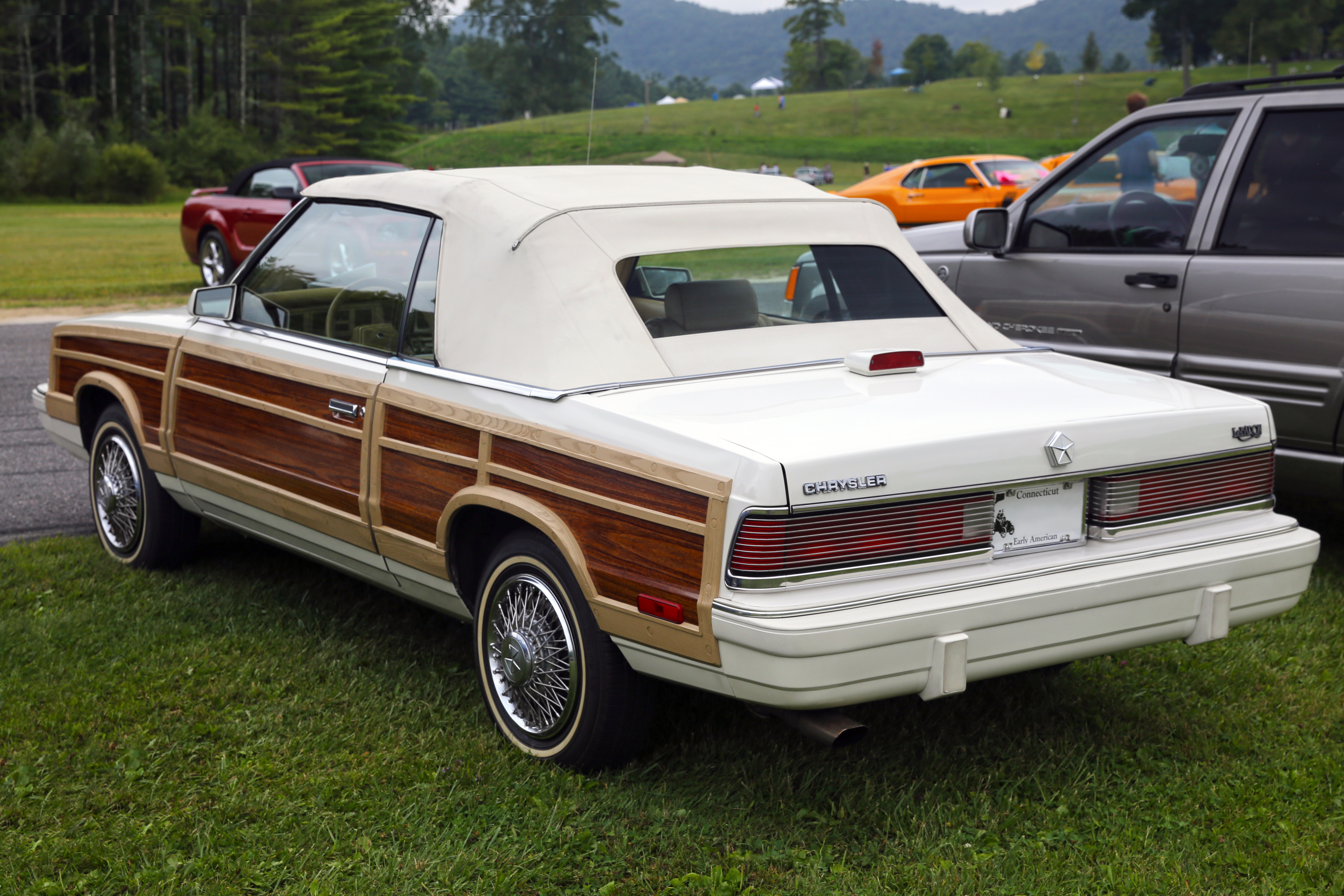 A 1986 Chrysler LeBaron Mark Cross Town & Country Convertible (KCP27) seen at the 2014 Lime Rock Gathering of the Marques attached to the Concours d'Élegance. The last year of this bodystyle, only 501 out of nearly 20,000 convertibles were built with the T&C package. This car, built in Chrysler's St. Louis plant, also has the optional 146hp 2.2 litre turbocharged engine.